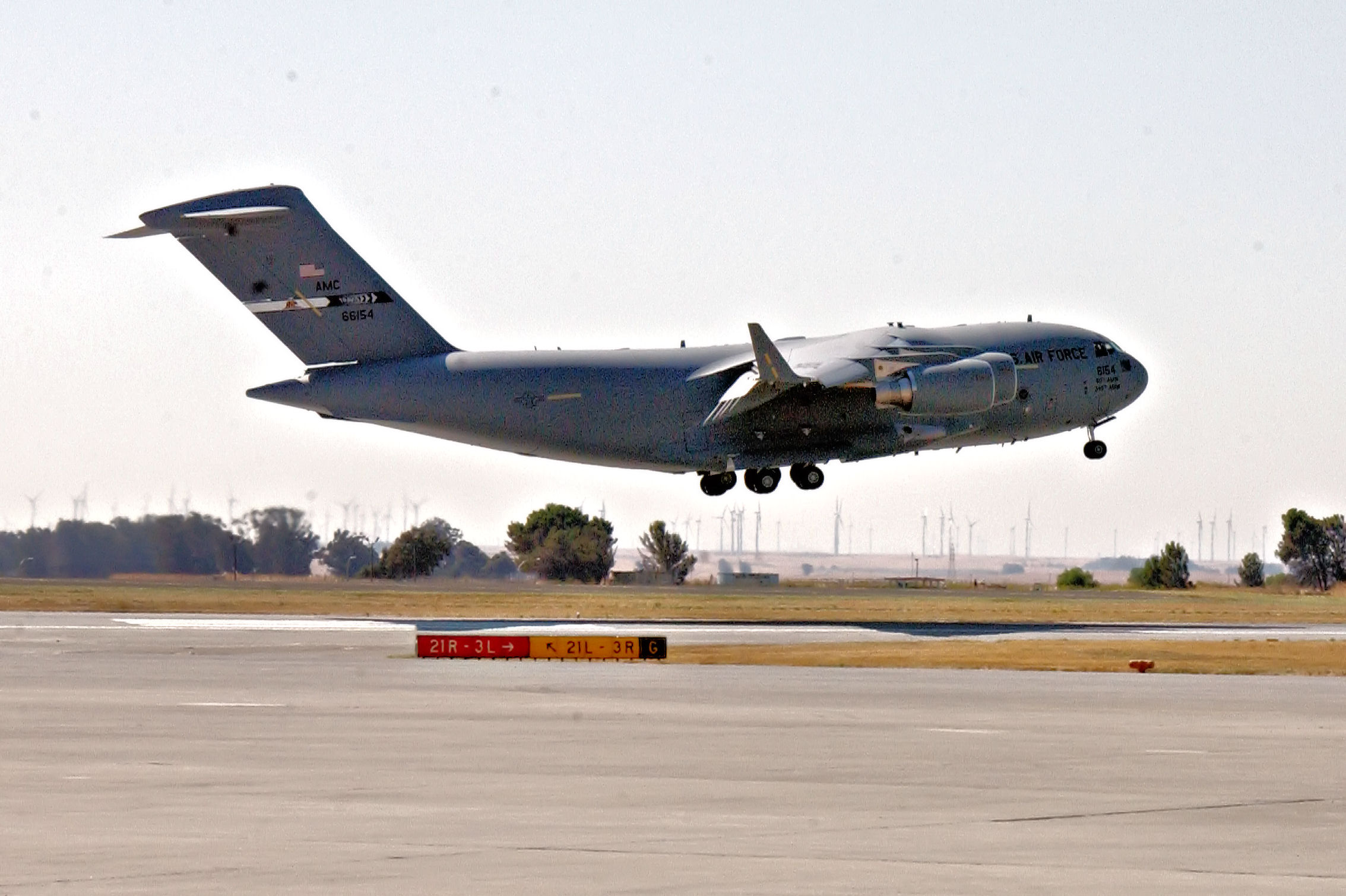 21st Airlift Squadron Boeing C-17A Globemaster III 06-6154 Named "Spirit of Solano"